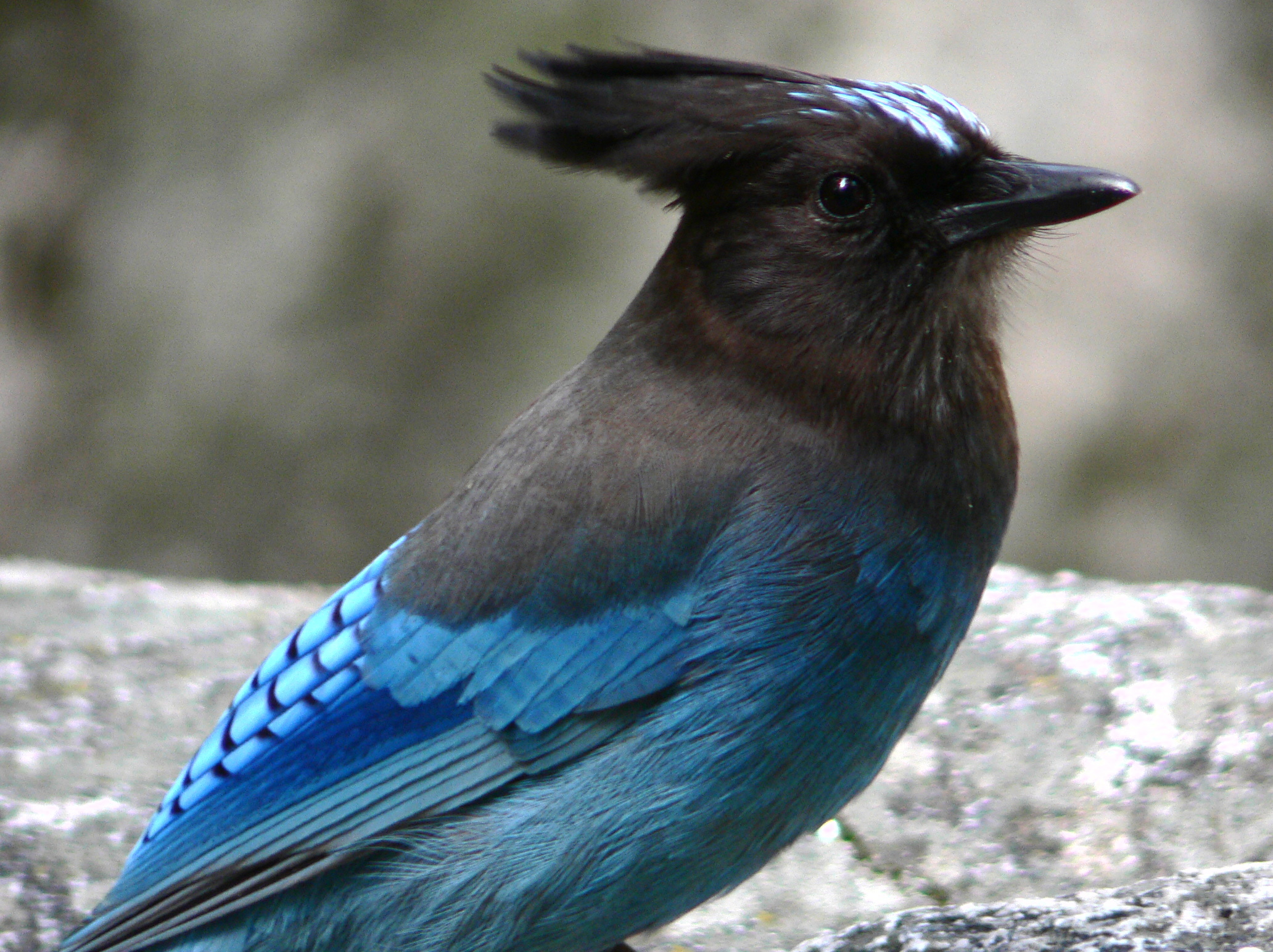 Steller's Jay